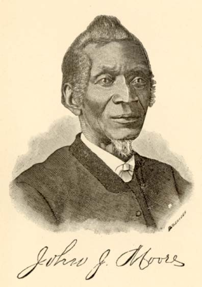 Image of Moore from his book, The History of The AME Zion Church in America